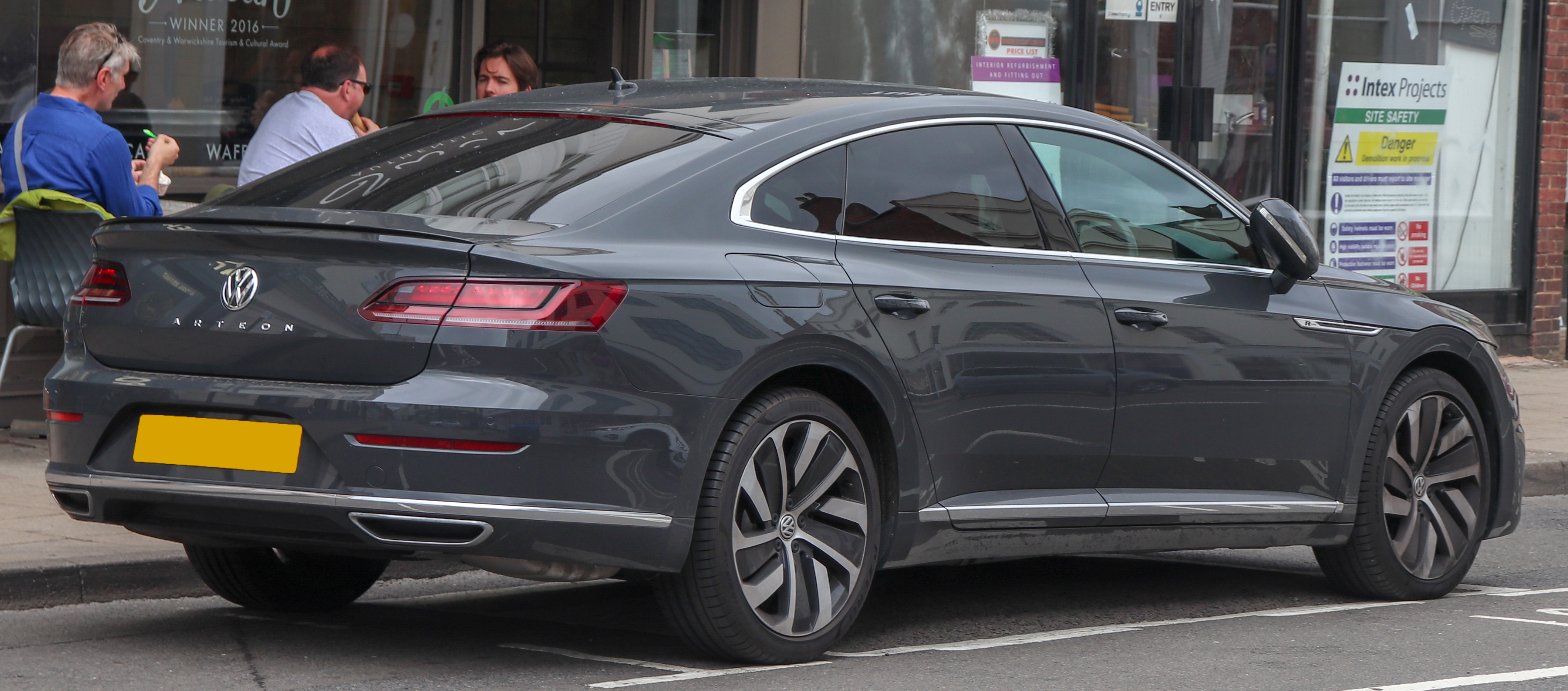 2018 Volkswagen Arteon R-Line TSi S-A 2.0 Rear Taken in Leamington Spa